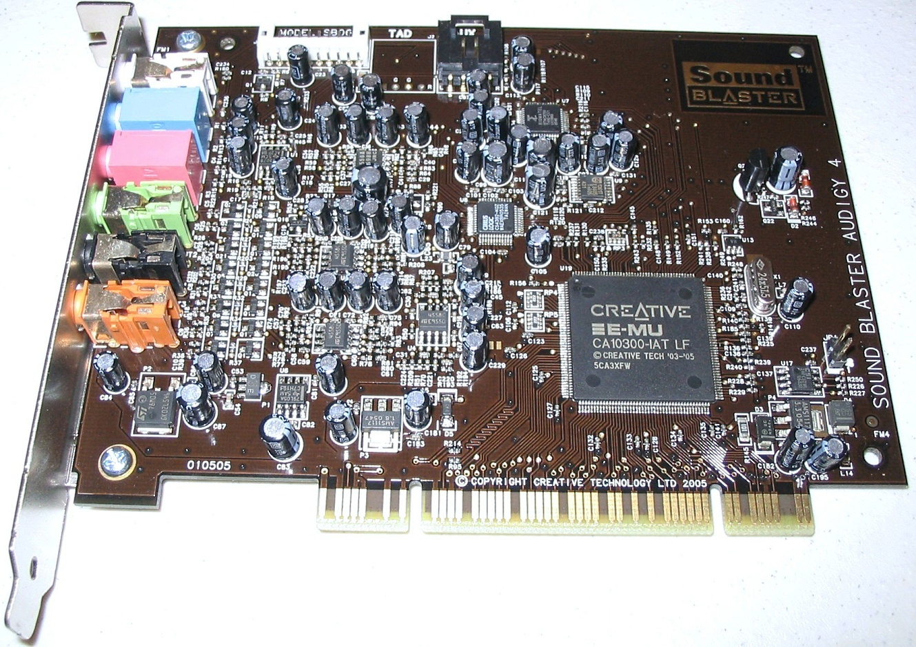 Sound Blaster Audigy 4 photo. Photographed by User:Swaaye.